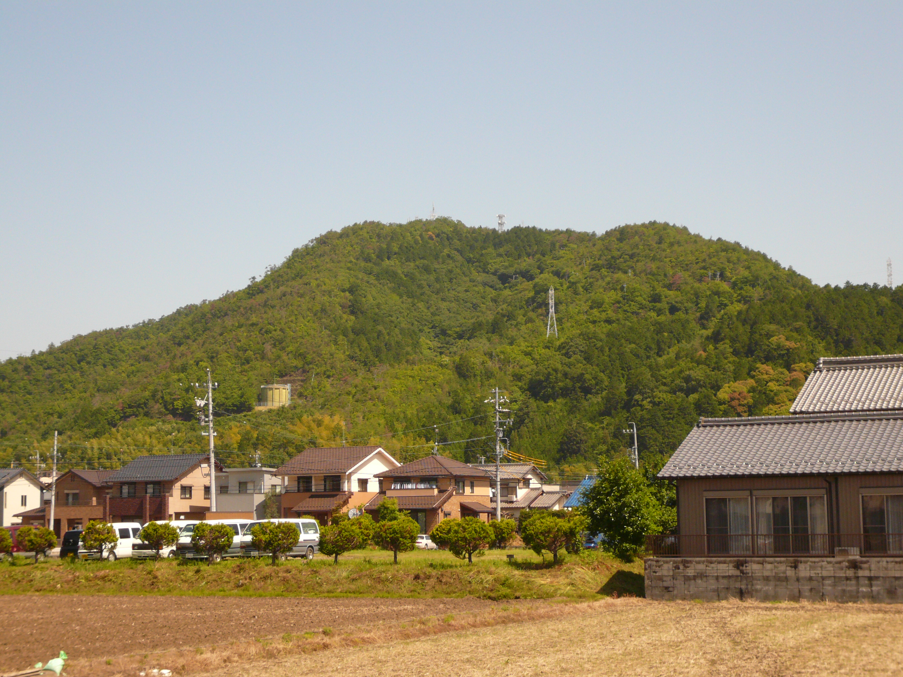 Mount Bi (Gifu) , Gifu, Gifu, Japan